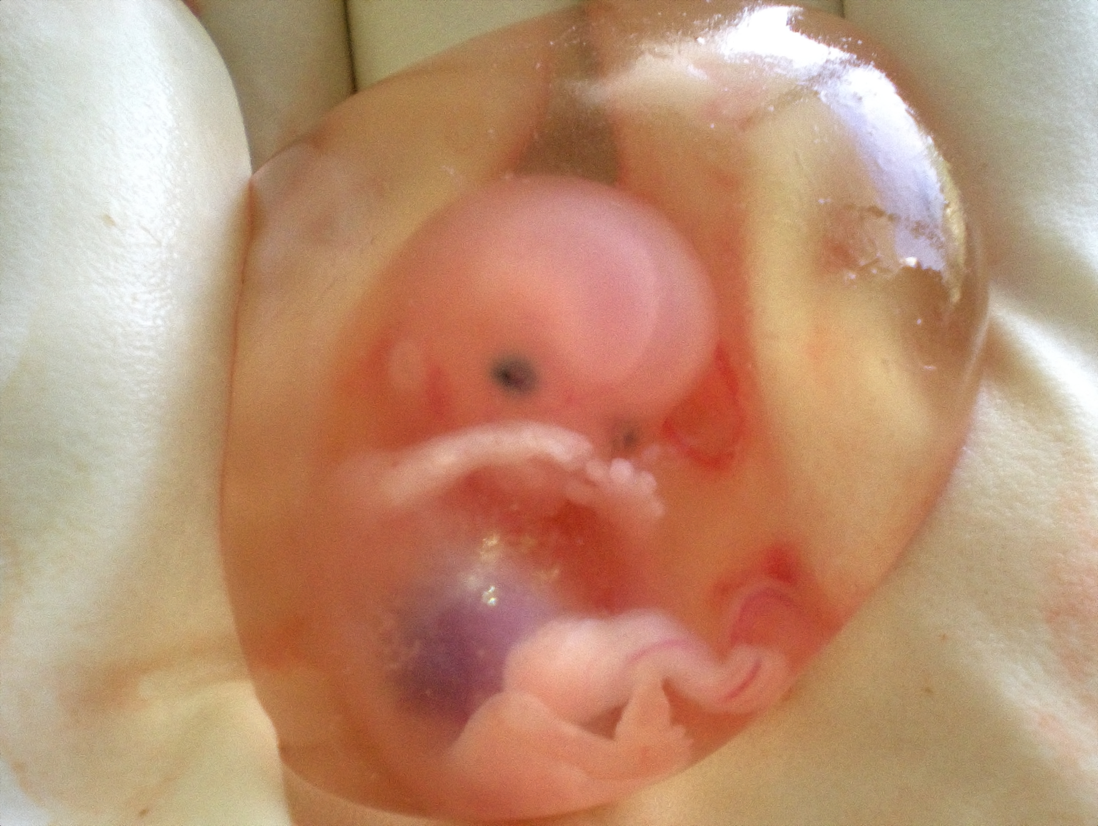 44-year-old pregnant woman with 6 previous children was diagnosed with carcinoma in situ of cervix (early-stage cancer of the uterus). The uterus (womb) was completely removed, including the fetus, to protect the health of the patient.